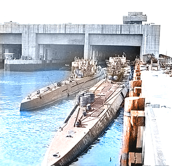 recoloured photo of two u-boats in norway